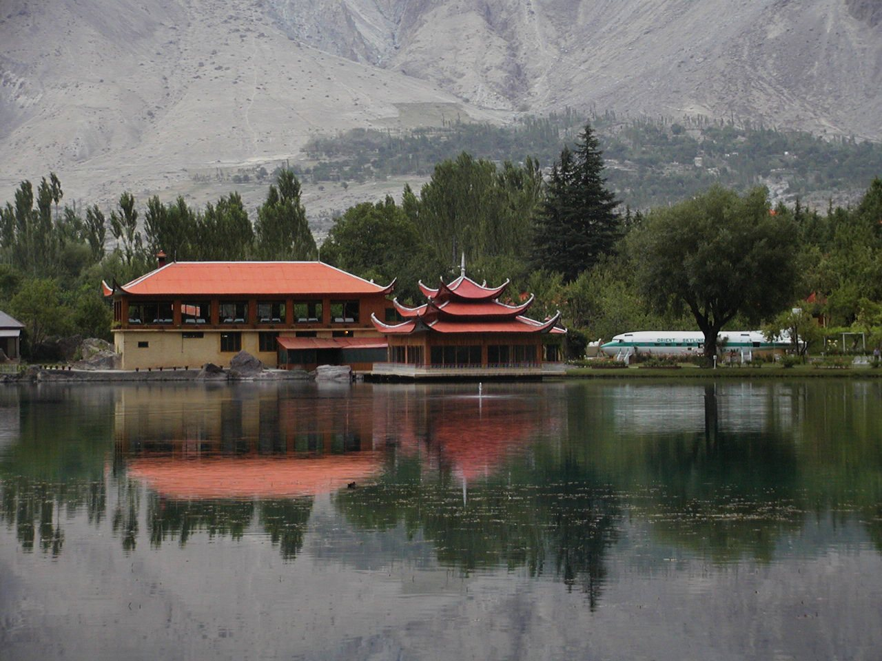 Shangrila Lake or Lower Kachura Lake in Skardu, in Gilgit-Baltistan of northern Pakistan. There is a unique kind of restaurant in the resort which is built inside the fuselage of an aircraft that crashed nearby.